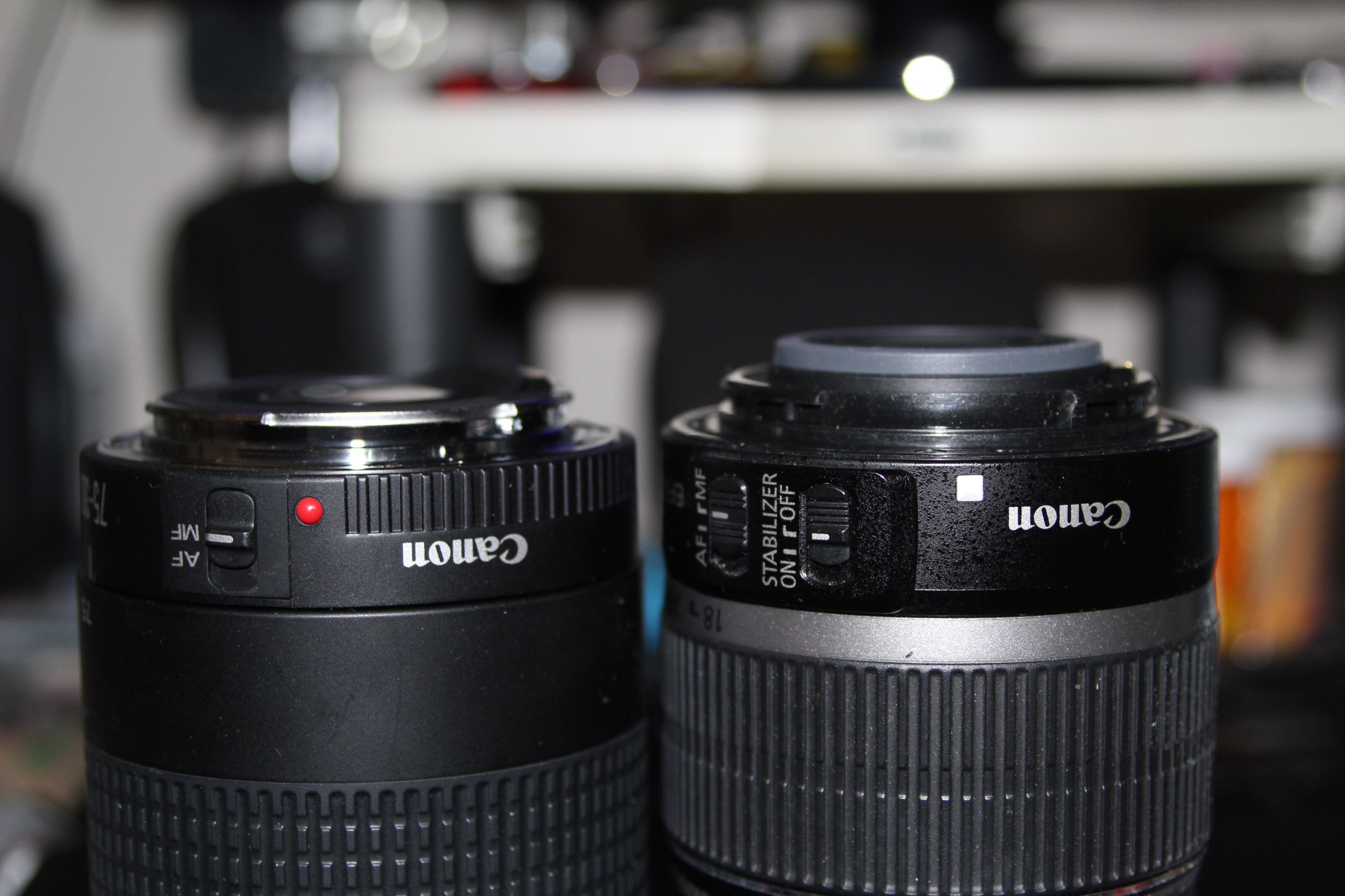 Comparison of EF (left) and EF-S (right) lens mounts. Note raised ring on EF-S lens.